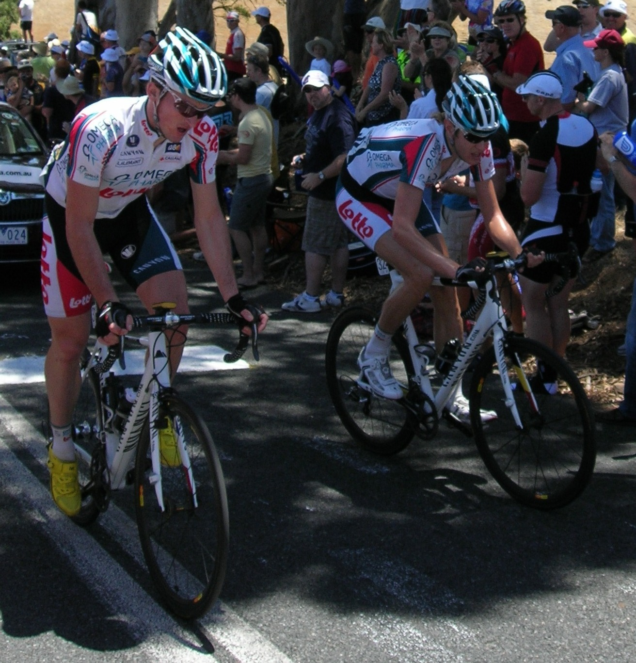 Mickaël Delage and Olivier Kaisen, both of Omega Pharma-Lotto, chase David Kemp up Checker Hill during Stage 2 of the 2010 Tour Down Under.